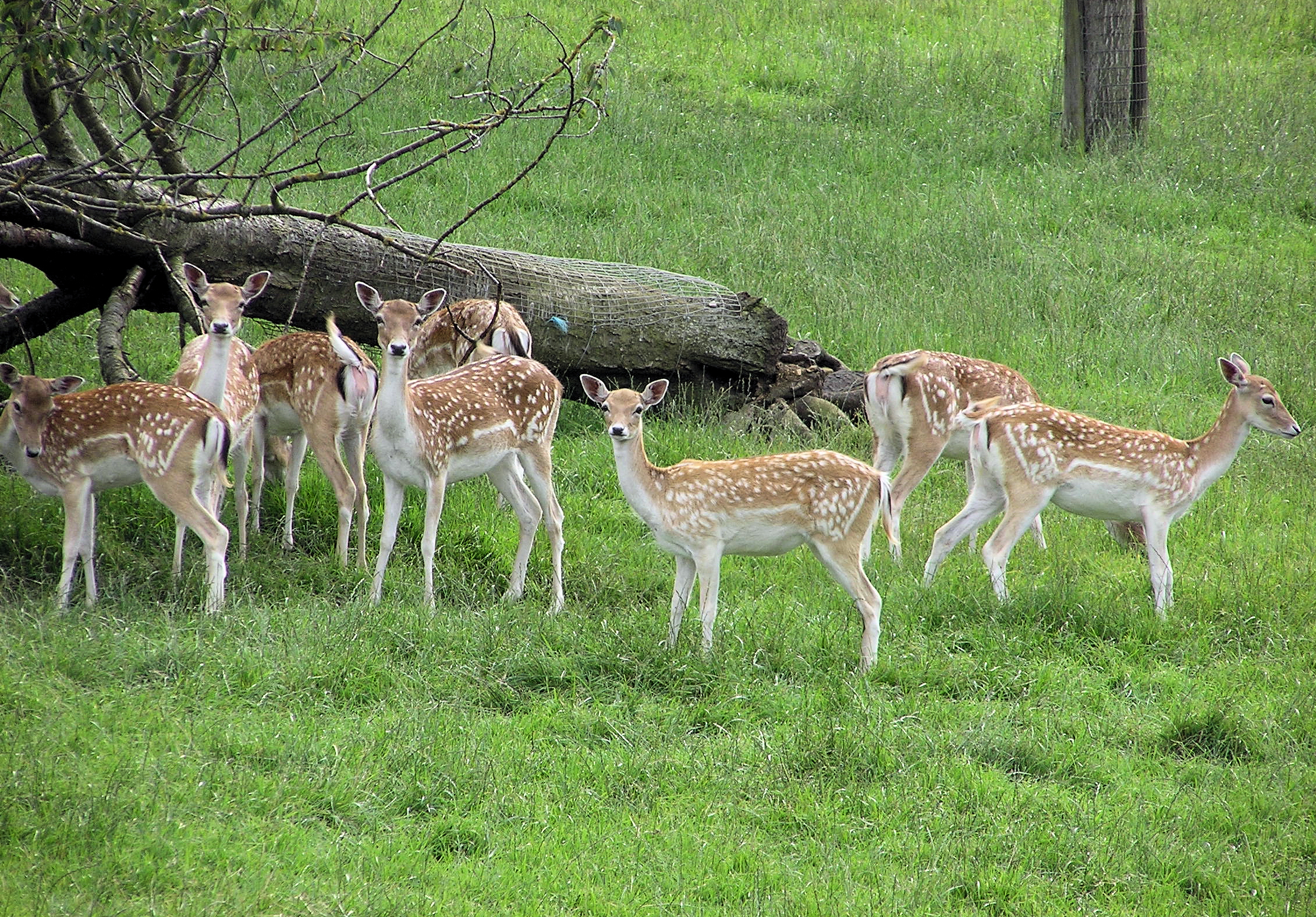 Fallow deer at Avon Valley Country Park, Keynsham, Bristol, England